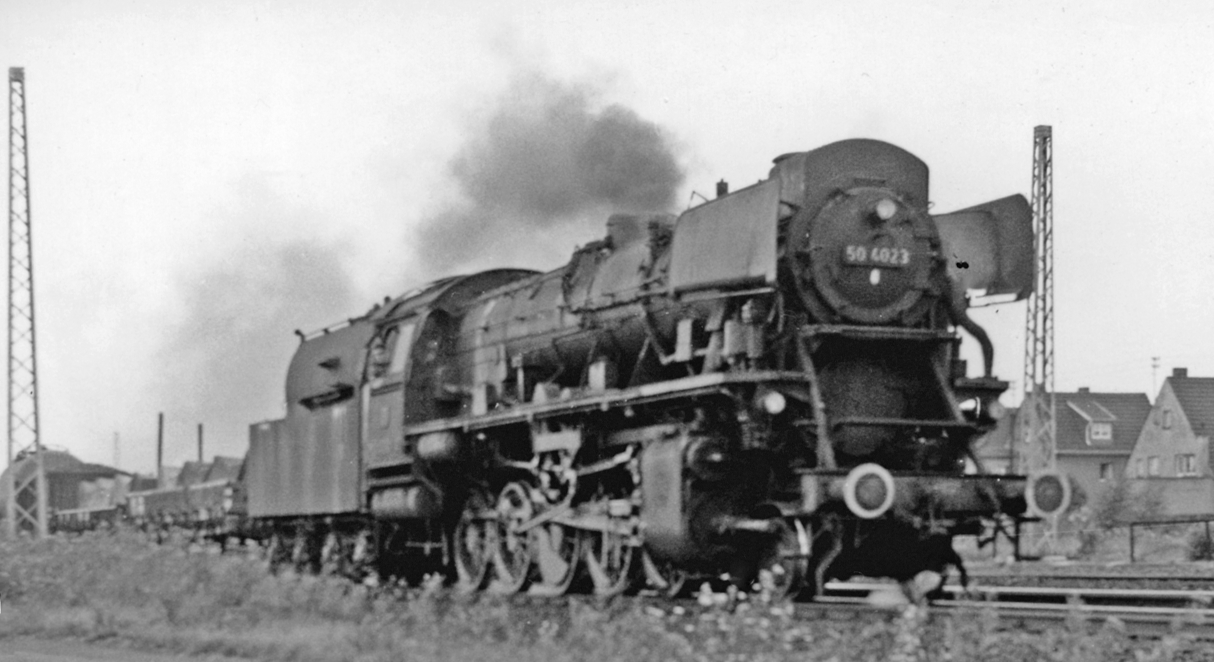 Steam locomotive DRG Class 50 with Franc-Crosti boiler at Spich train station.